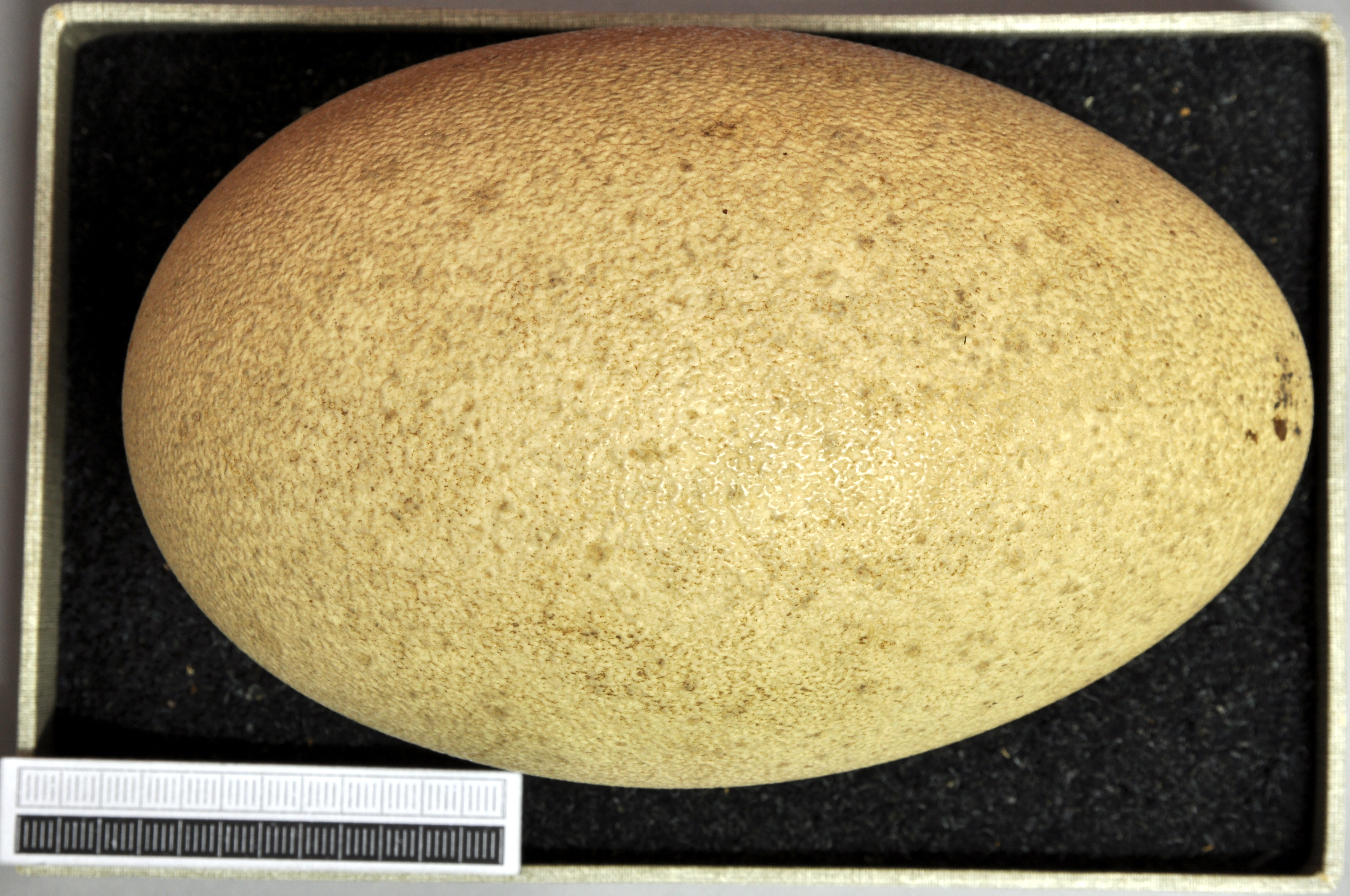 Southern cassowary Casuarius casuarius , egg, Coll. Museum Wiesbaden